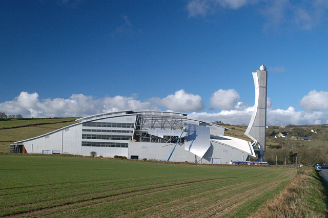 Incinerator. Isle of Man. The new incinerator at Richmond Hill, near Douglas.